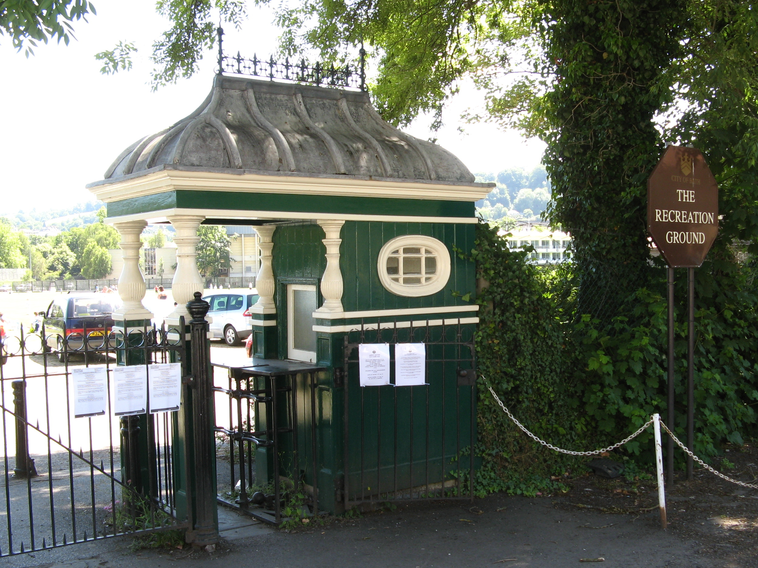 Disused circa 1930 turnstile and kiosk at the William Street entrance to The Recreation Ground, Bath, England.